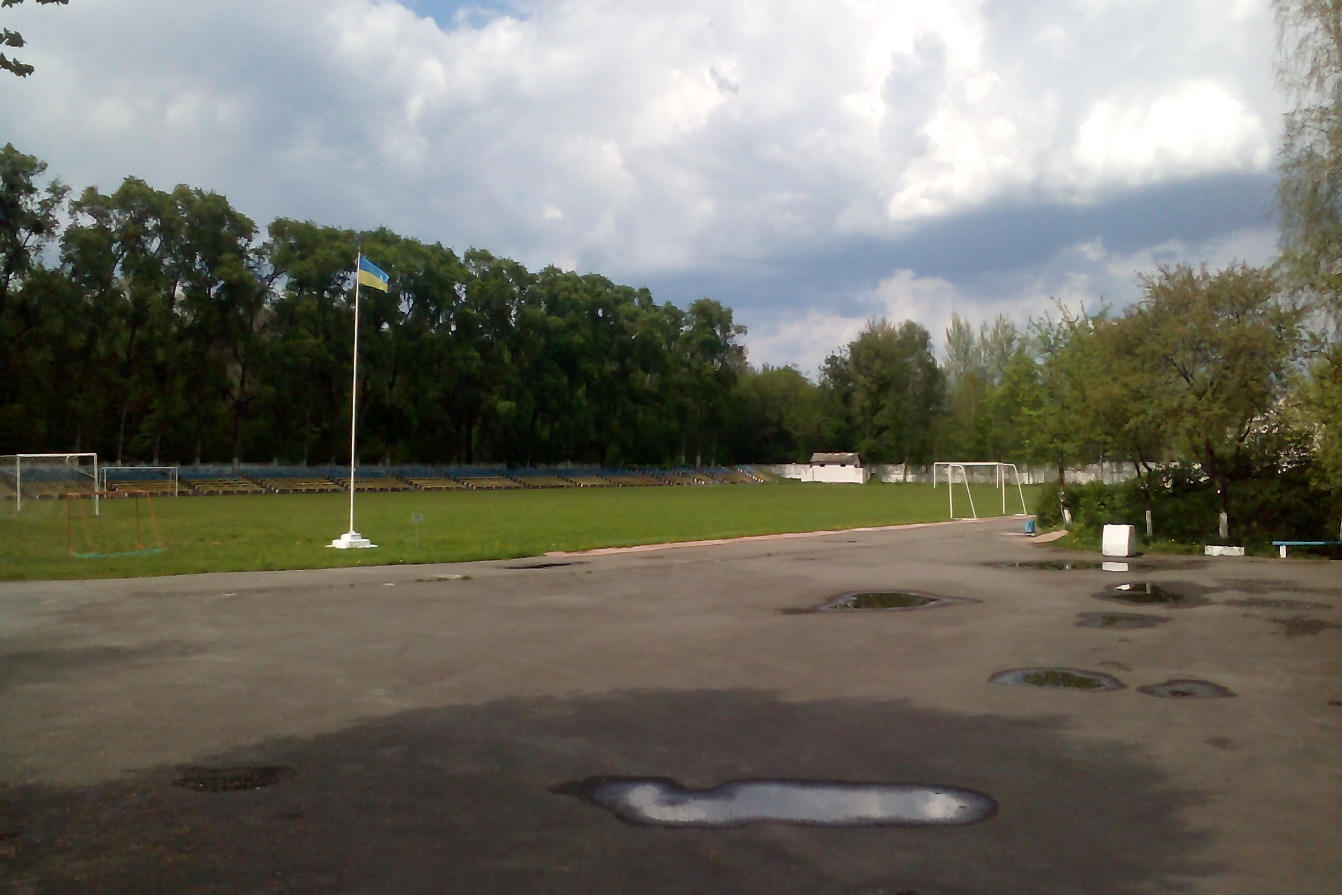 Lokomotyv Stadium in Shepetivka, Khmelnytsky Oblast, Ukraine